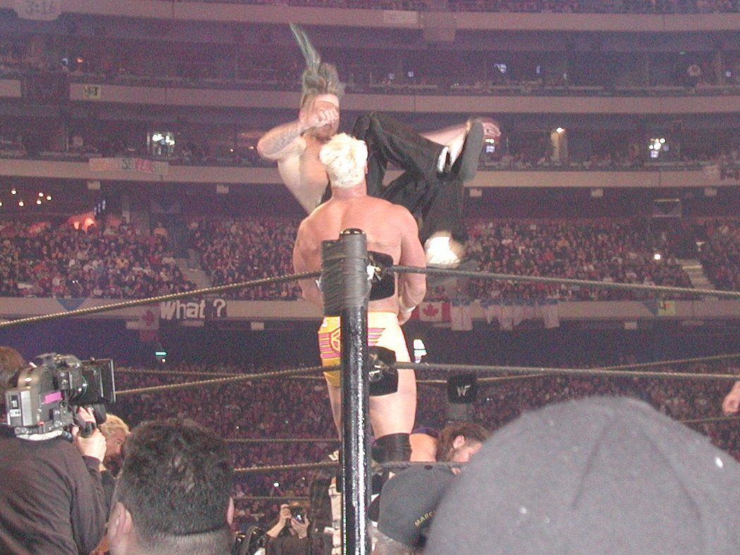 Poetry in Motion, performed by Jeff Hardy and Matt Hardy on Billy Gunn. SkyDome, Toronto, ON, March 17 2002.